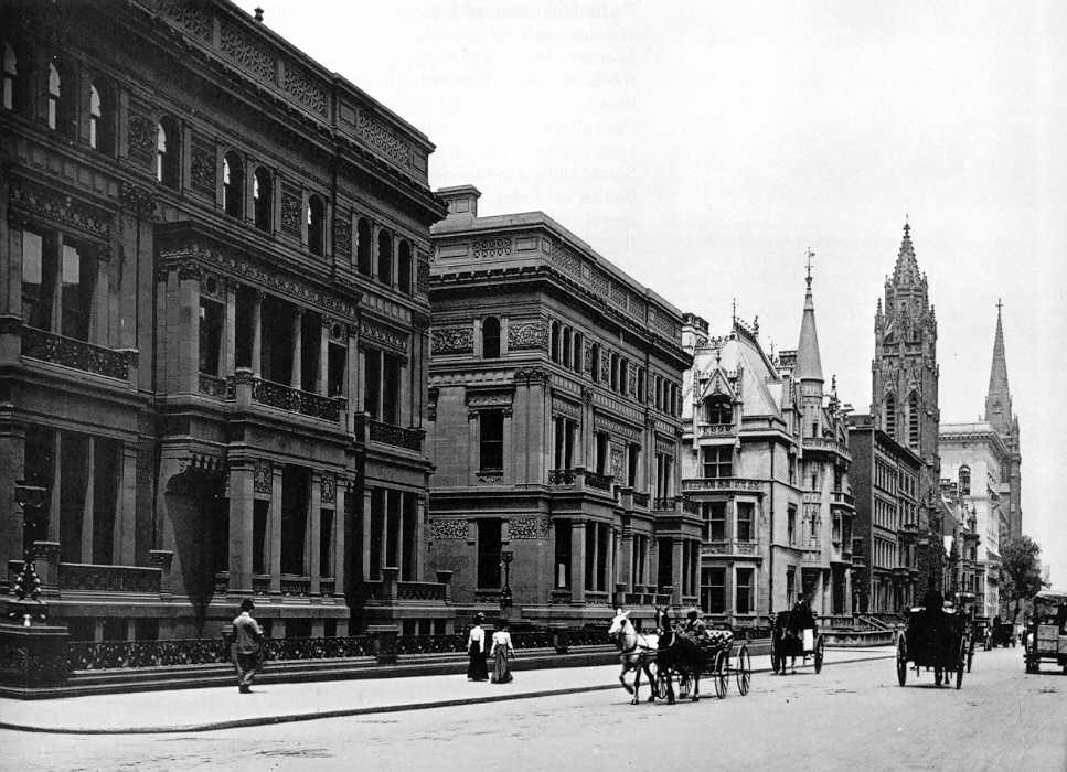 Photograph of view looking along New York City's Fifth Avenue, showing the W. H. Vanderbilt house (1870–1881), closest, and the W. K. Vanderbilt house, farther away. The W. H. Vanderbilt house was designed by Herter Brothers and Charles Atwood, architects. The furthest away home (660 Fifth Avenue) was designed by Richard Morris Hunt. Both homes have been demolished.